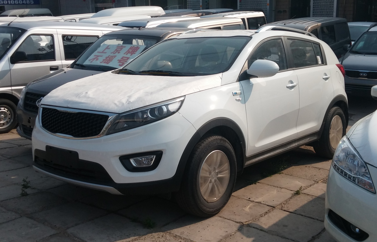 Kia Sportage R facelift photographed in Beijing, China.